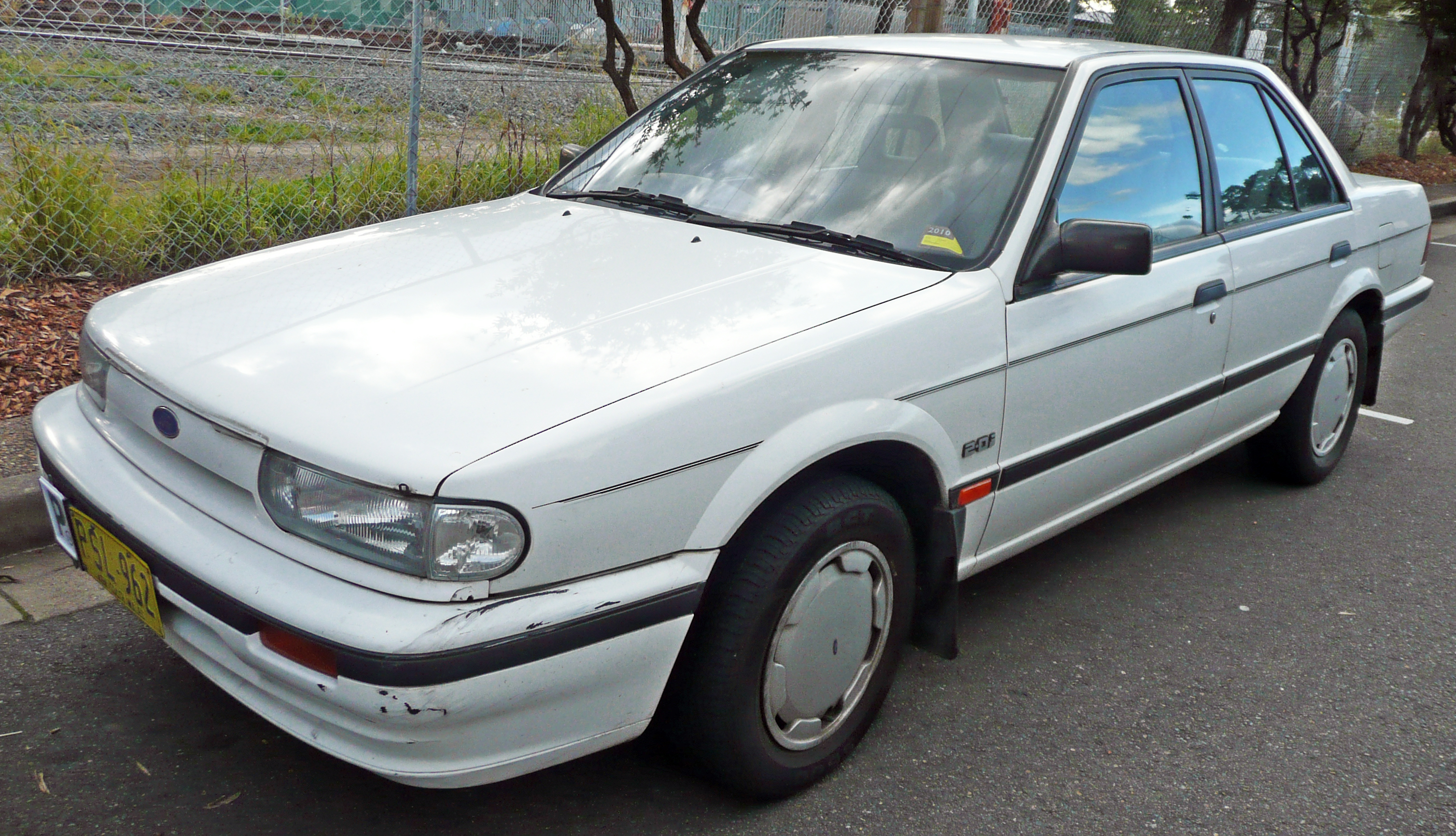 1989 Ford Corsair (UA) GL sedan. Photographed in Sutherland, New South Wales, Australia.